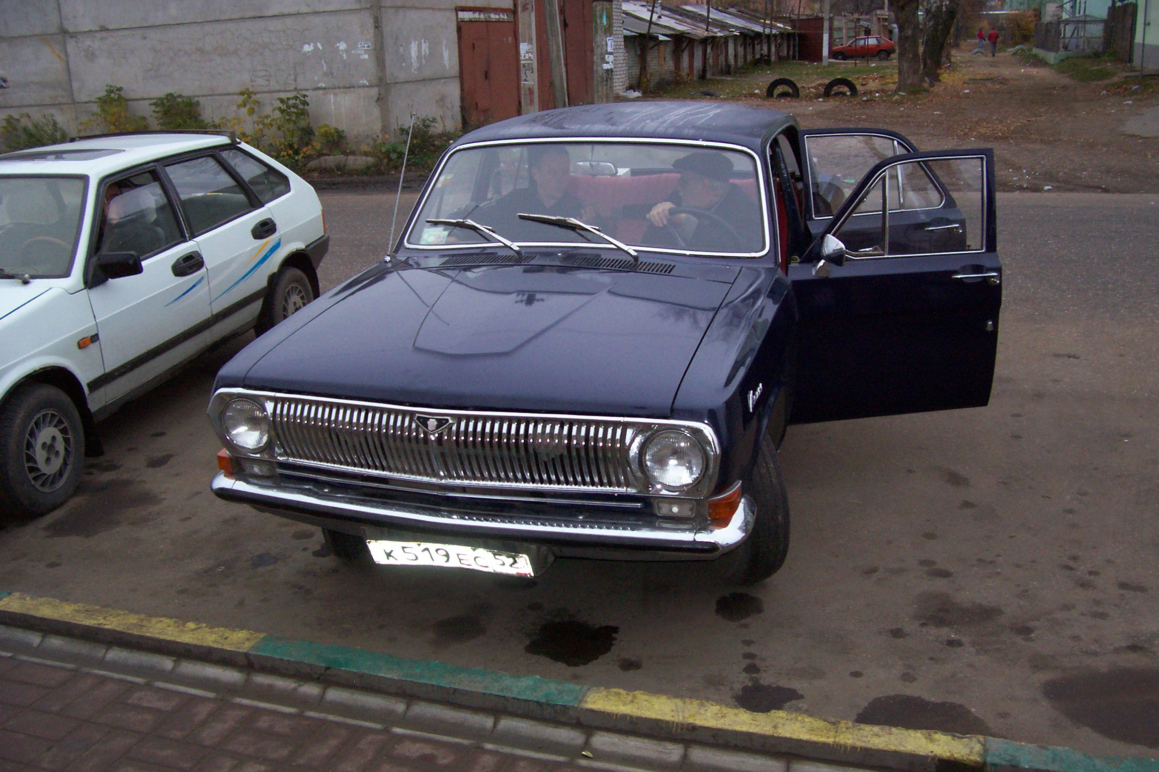 GAZ-24 Volga, 1974; more modern LADA Samara compact car in the left.